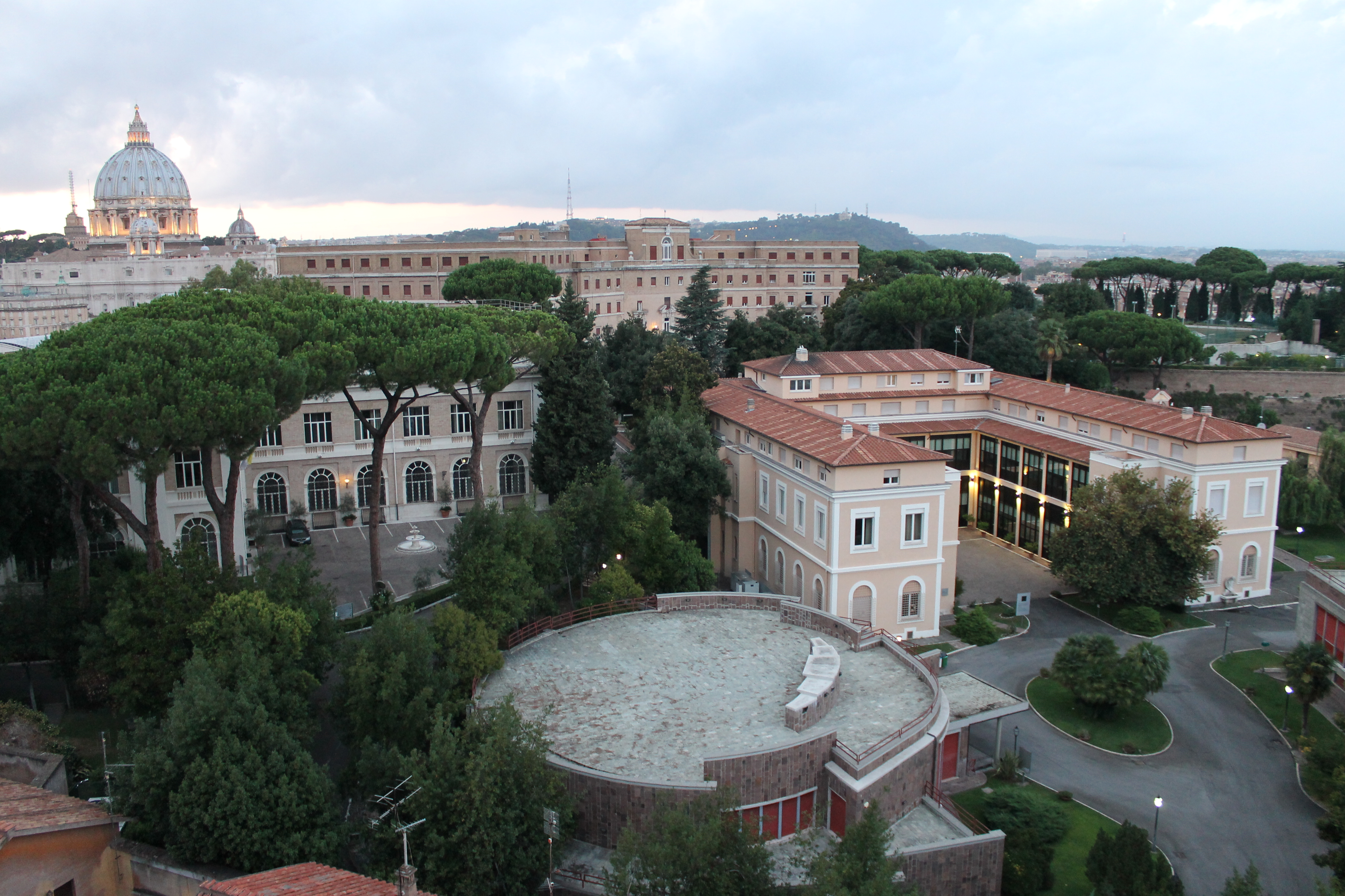 A view of part of the campus of the Pontifical Urban University (Pontificia Universita Urbaniana) in Rome.